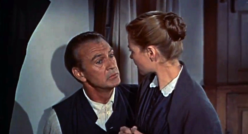 Gary Cooper and Dorothy McGuire in the film trailer for Friendly Persuasion, 1956